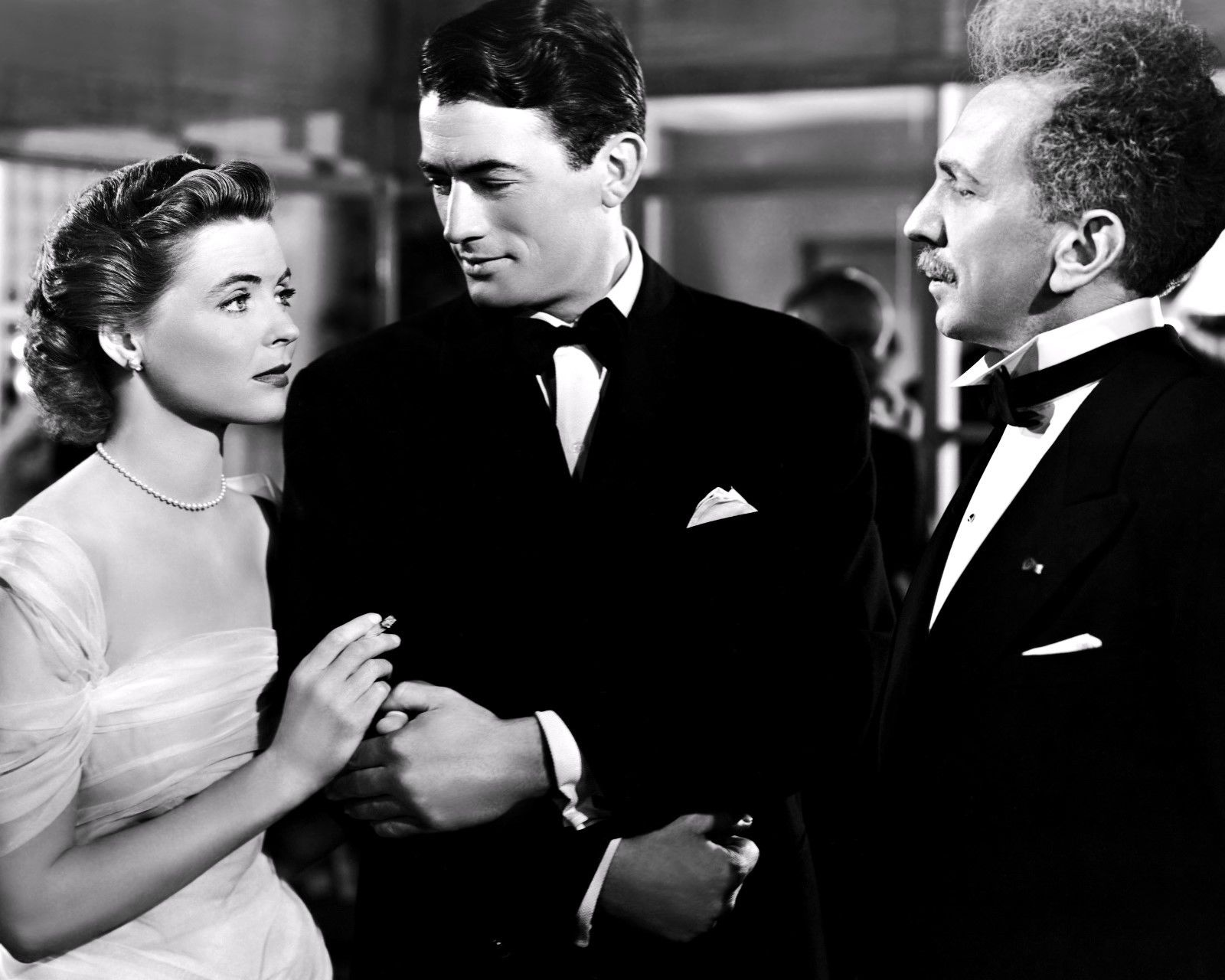 Dorothy McGuire, Gregory Peck & Sam Jaffe in a scene from the 1947 film Gentleman's Agreement